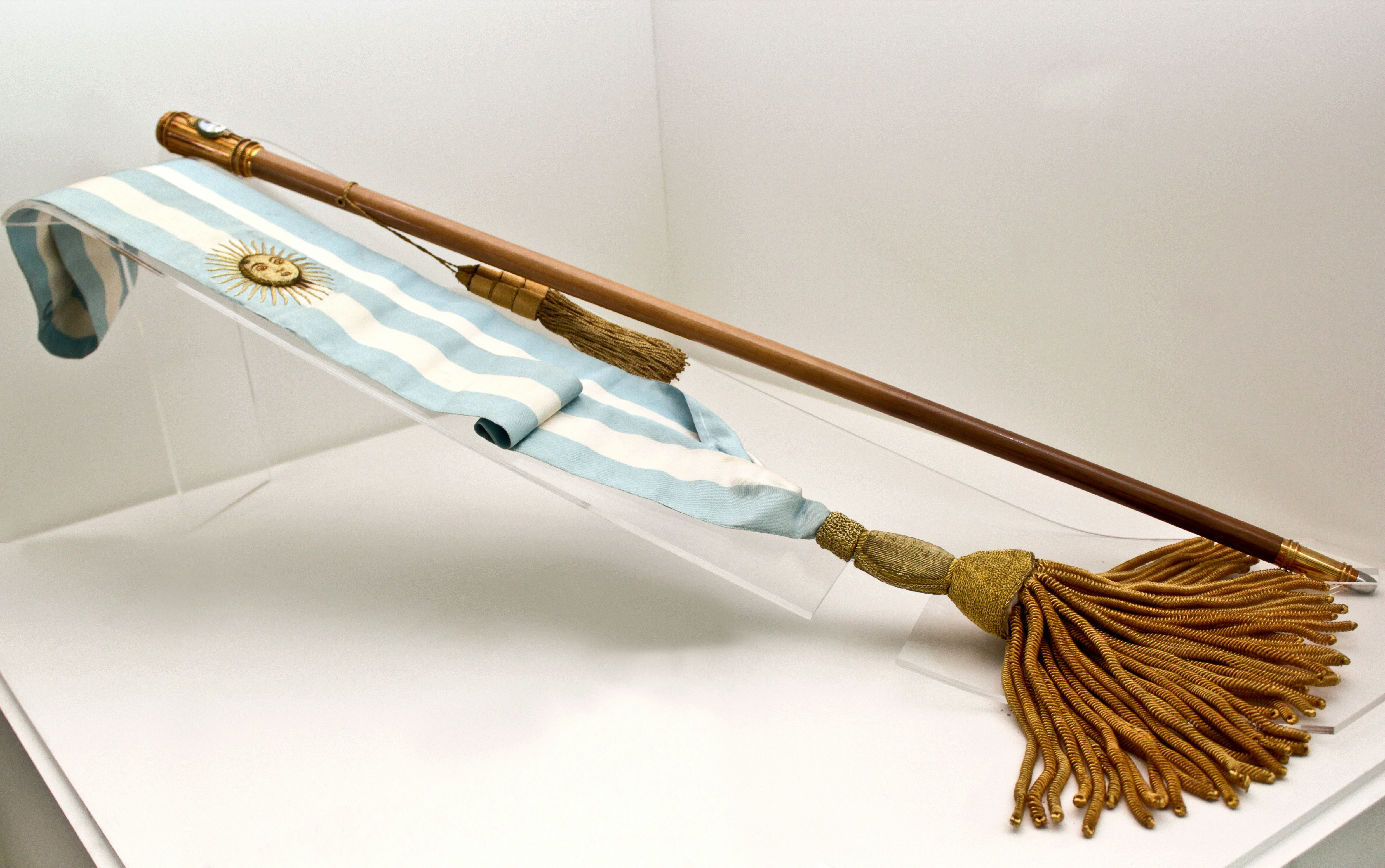 The Argentine Presidential Regalia. Silk Presidential Sash, with the national sun, its thirty two rays, and facial features embroidered in metallic threads as is the tassel. Presidential Baton made of Malacca, with a gold hilt chiselled with Coat-of-Arms in enamel, ending in a golden ferrule. These objects were owned by Raúl Ricardo Alfonsín, former President of Argentina